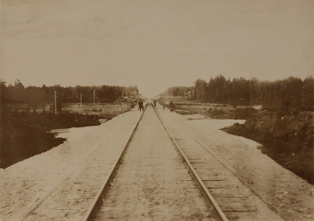 Railroad tracks through the Vastseliina Wetlands